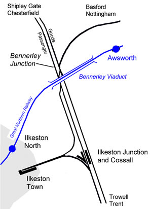 Midland Railway Ilkeston. Junction from the Erewash Valley Line approx. 1910